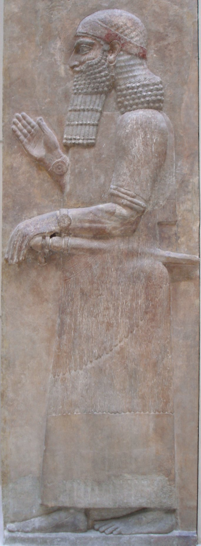 Assyrian dignitary. Low-relief from the L wall of king Sargon III's palace at Dur Sharrukin in Assyria (now Khorsabad in Iraq), c. 713–716 BC. From Paul-Émile Botta's excavations in 1843–1844.